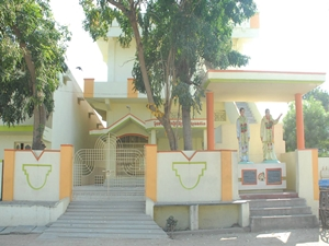 Kalyanamandapam